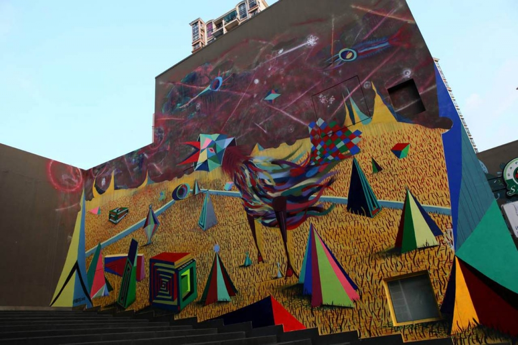 Photograph of mural done by Woozy in Shenzhen-China for the international Mural Exhibition